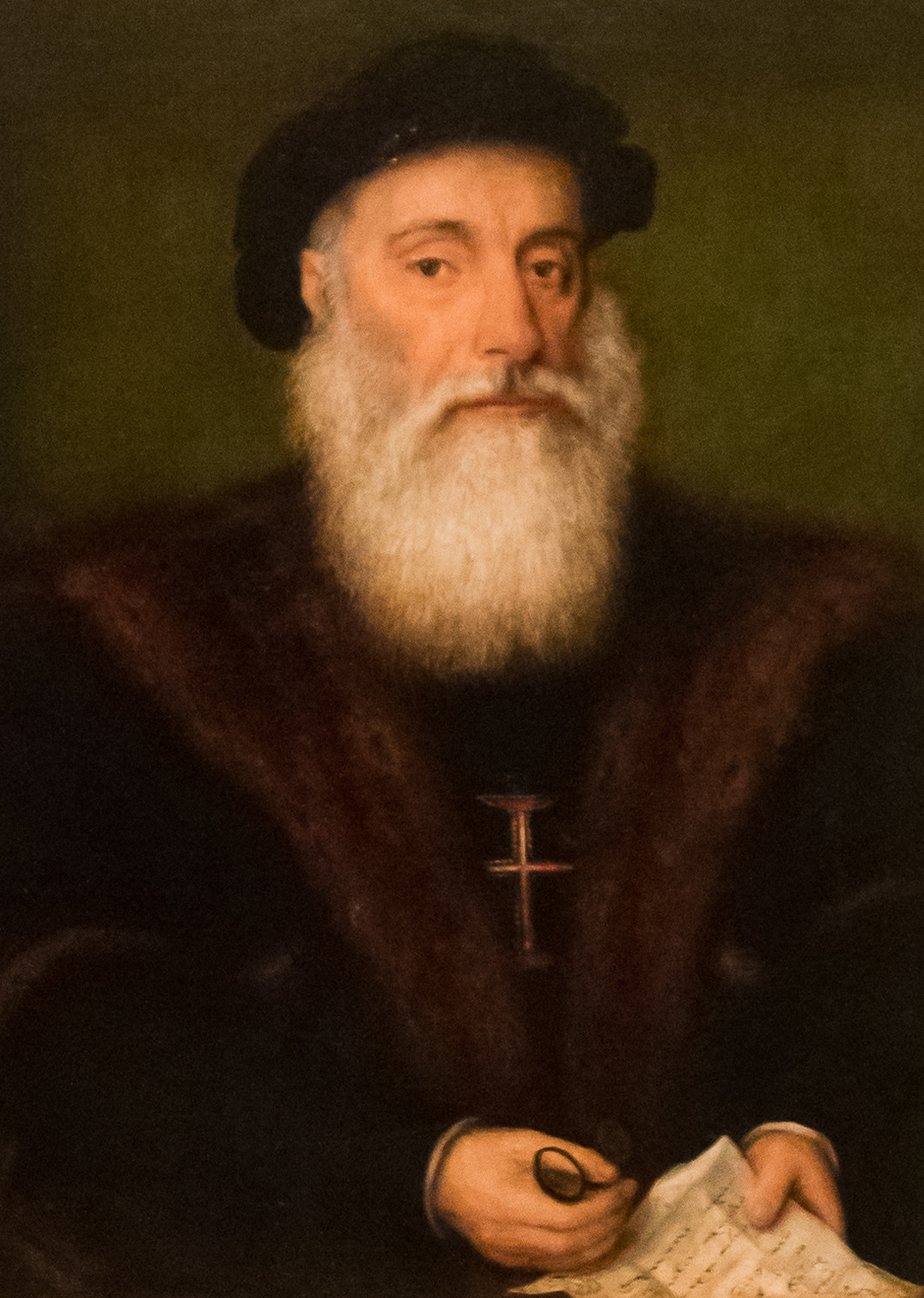 Portrait of a Knight Templar says Portrait of Vasco da Gama..